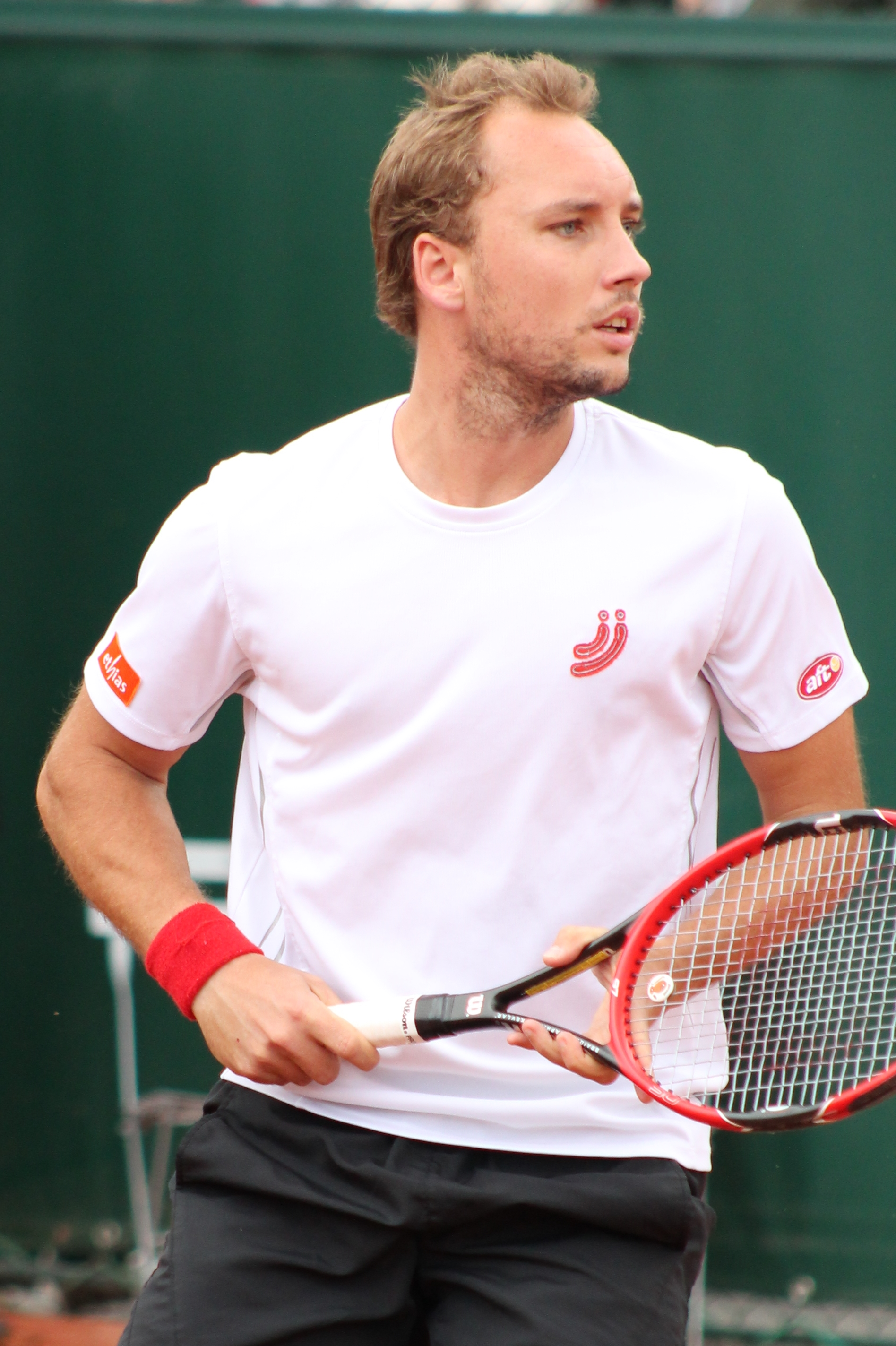 Darcis RG15 (11)